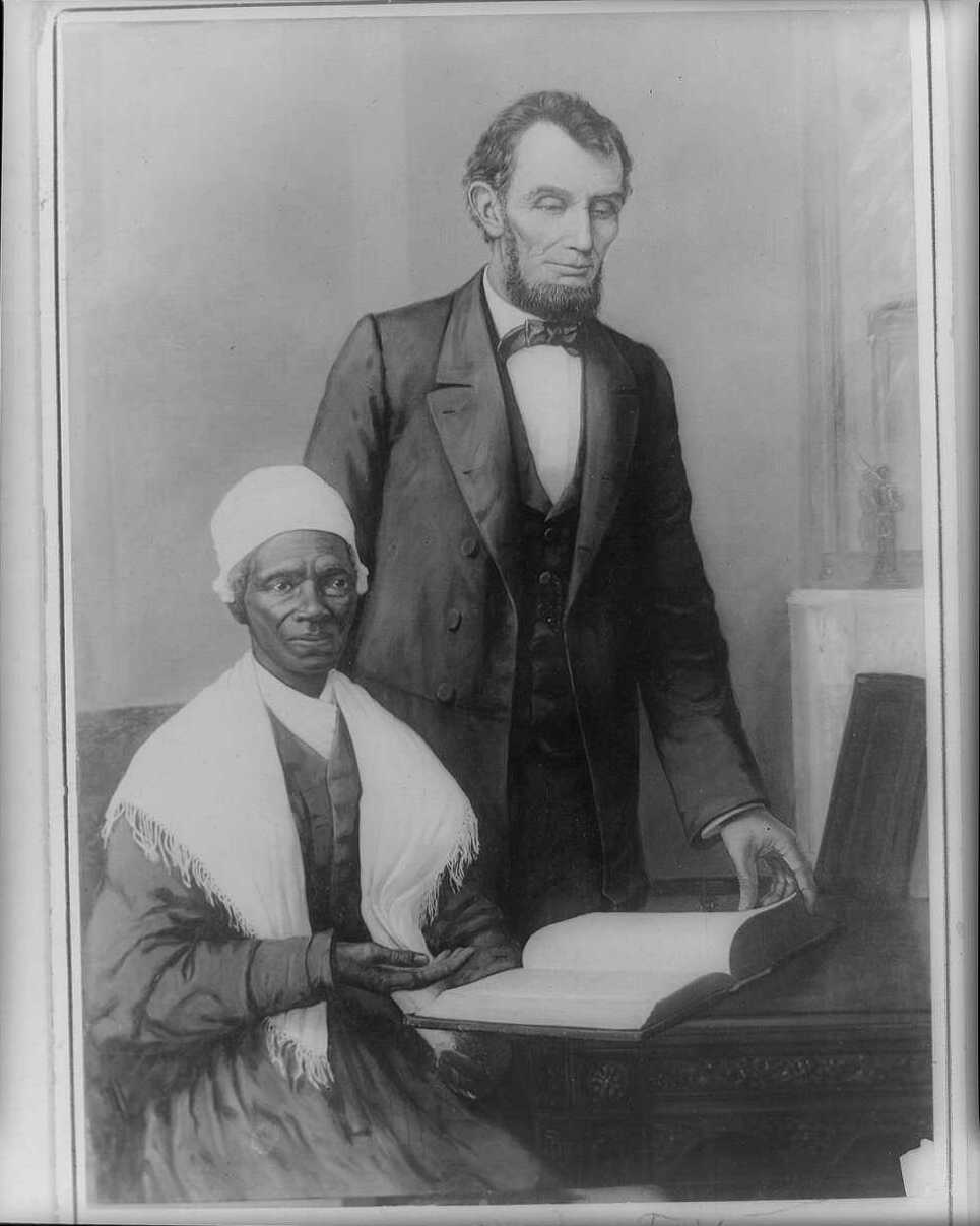 Title: A. Lincoln showing Sojourner Truth the Bible presented by colored people of Baltimore, Executive Mansion, Washington, D.C., Oct. 29, 1864 Abstract/medium: 1 photographic print on cabinet card mount.